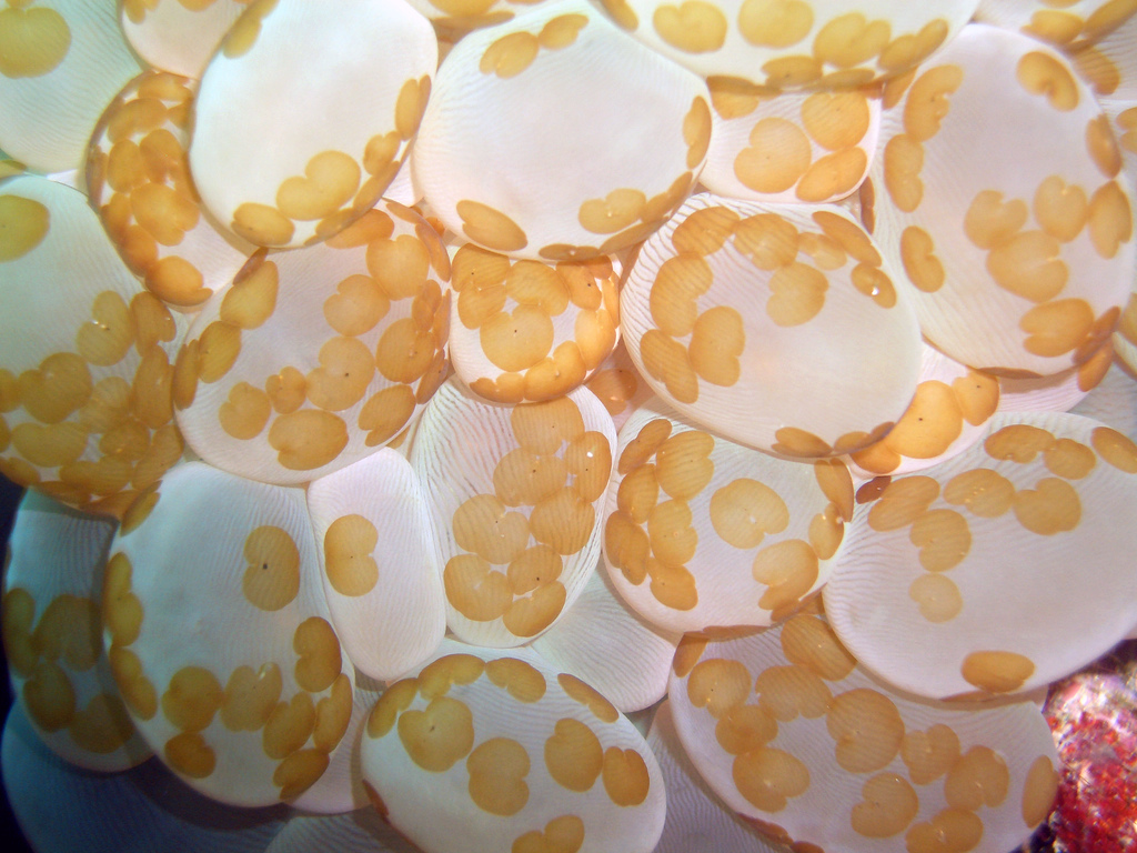 The flatworm-like Waminoa sp. on Plerogyra sp..